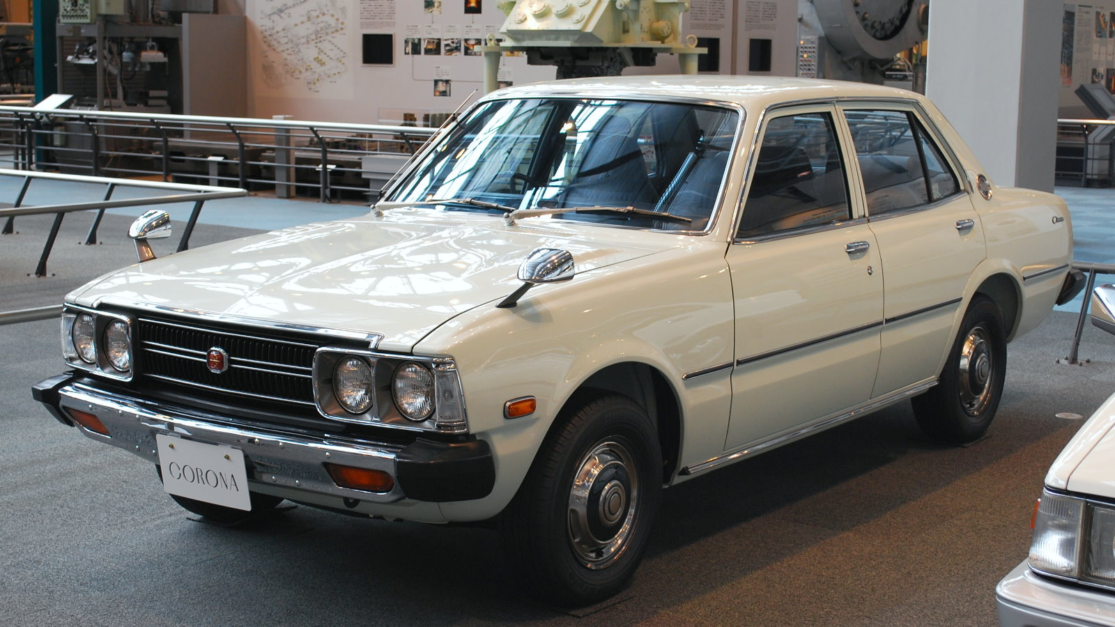 5th generation Toyota Corona 1800 GL TTC-C 16R-U engine (RT102), built 1976-1977.